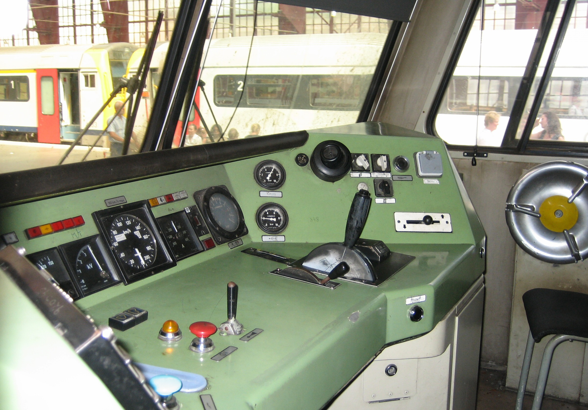 AM82 type train interior on antwerpen centraal Picture taken by Hullie on 29 July 2006